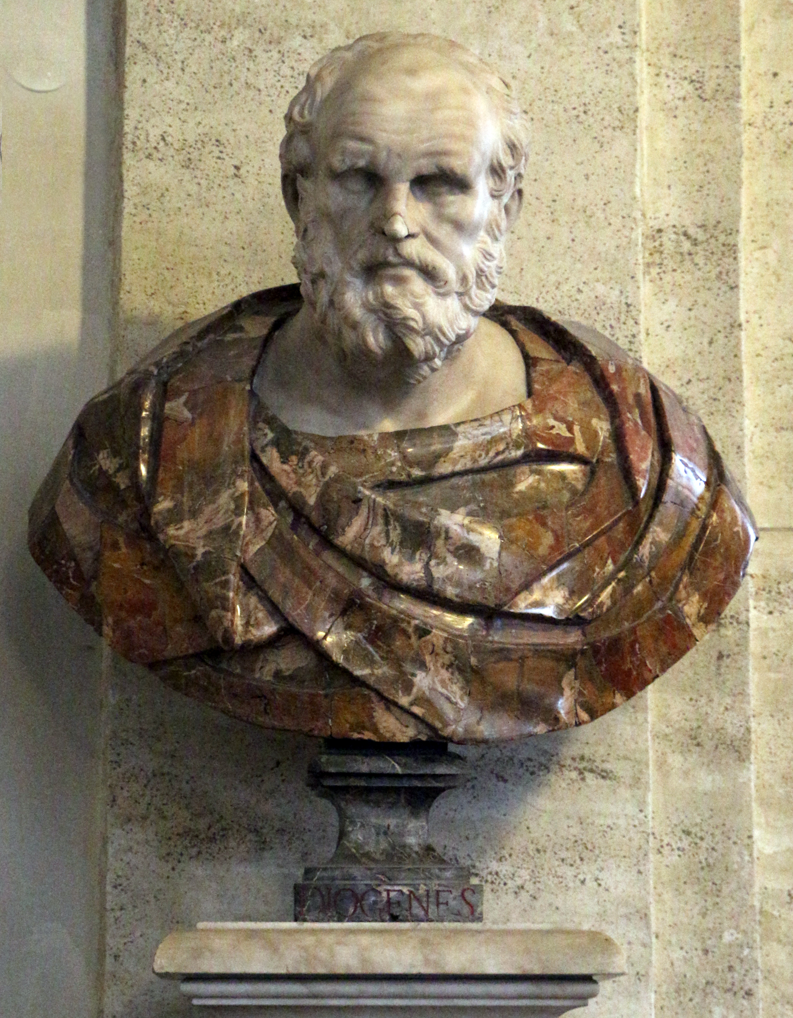 Sculptures in the Galleria Doria Pamphilj (Rome)